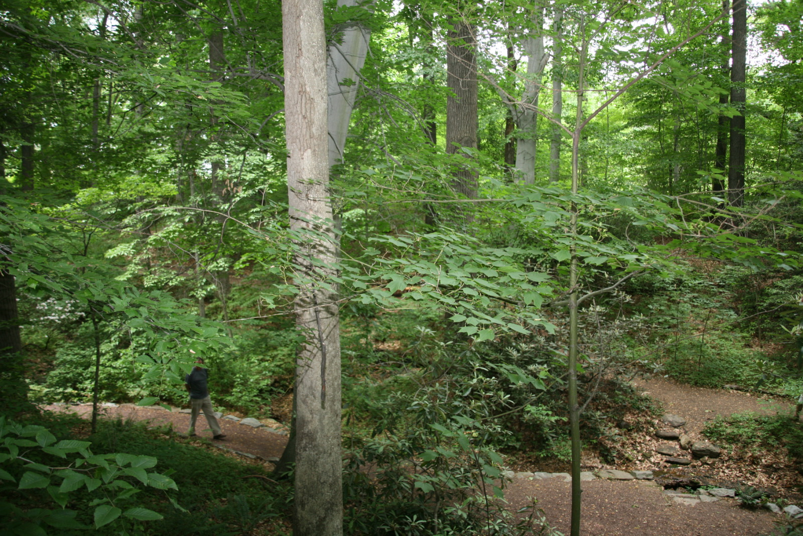 From ephemeral spring woodland wildflowers to dazzling, drought-resistant prairie plants, the flora found in a broad slice of the eastern United States is represented in the Fern Valley Native Plant Collection. Many of the plants in the collection are native to the Washington, DC area; in addition, prairie plants that you might see on the western edge of our eastern forests; plants of the sandy, flat Coastal Plain in the southeastern United States; and trees, shrubs, and woodland flowers of New England are also part of the Native Plant Collection.